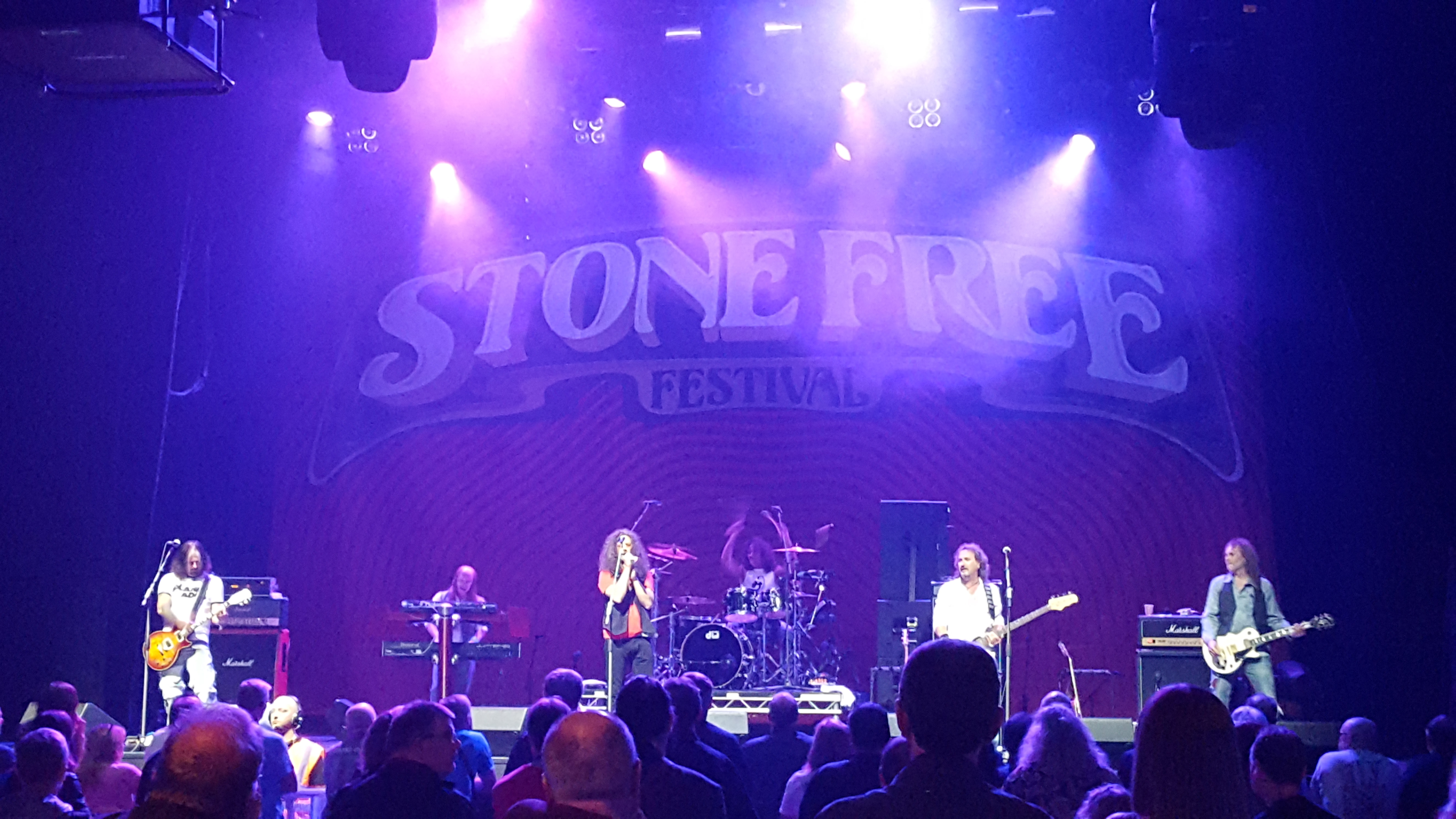 CATS in SPACE at London's Stone Free Festival 2016